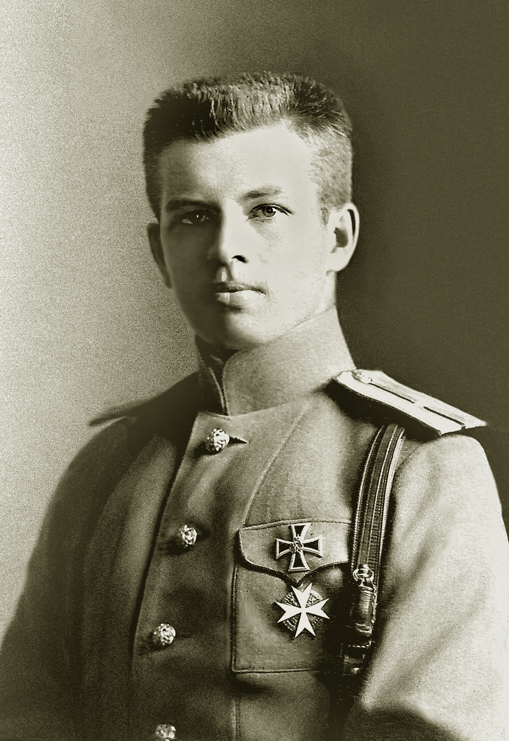 Korvin-Kerber, Viktor Lovovich.